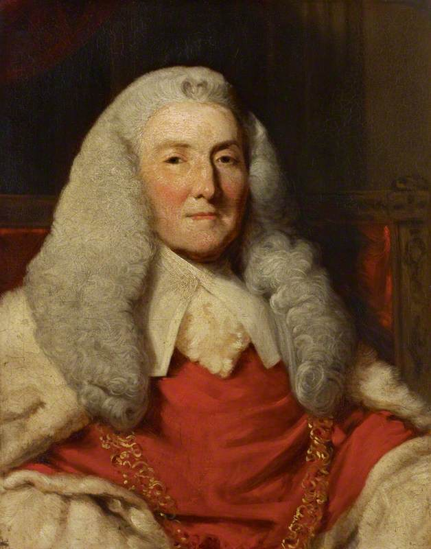 Portrait of William Murray, 1st Earl of Mansfield, Lord Chief Justice